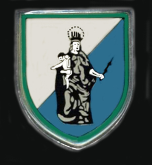 Staff & HQ Company 56th Home Defense Brigade